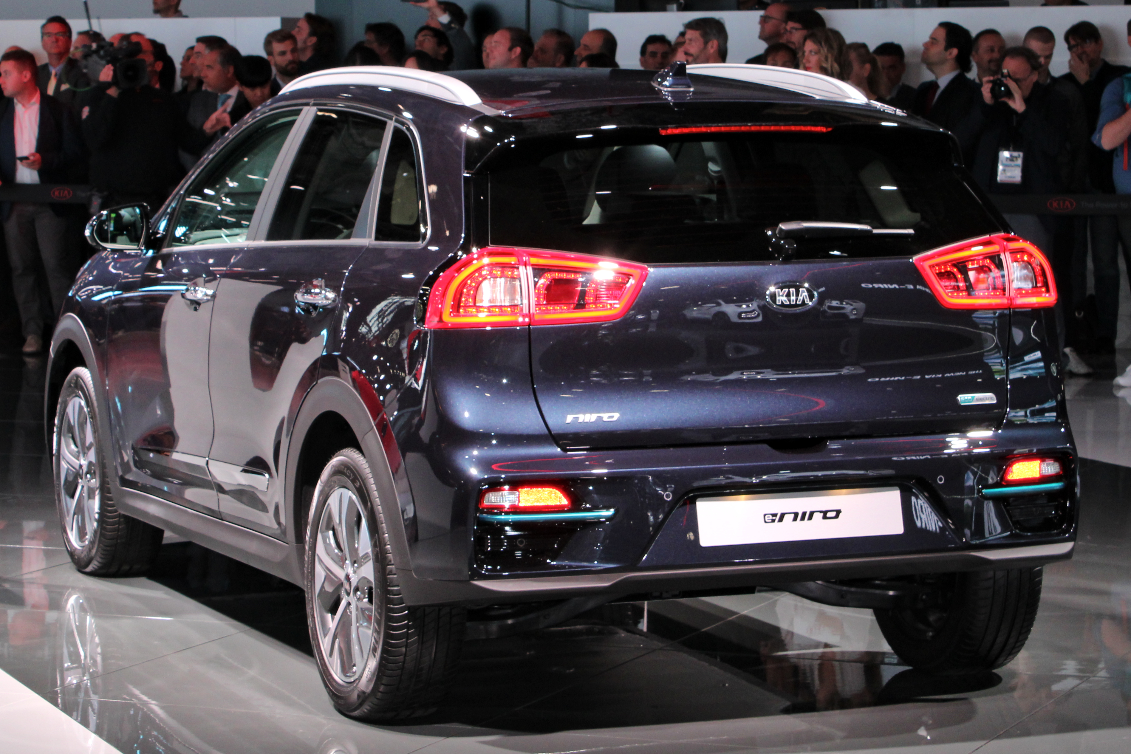 Kia Niro EV at Paris Motor Show 2018